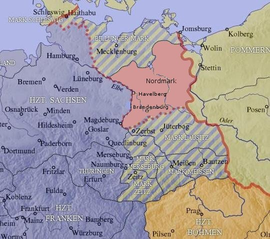 Nordmark within the Holy Roman Empire at the time of the Ottonians (965-983)